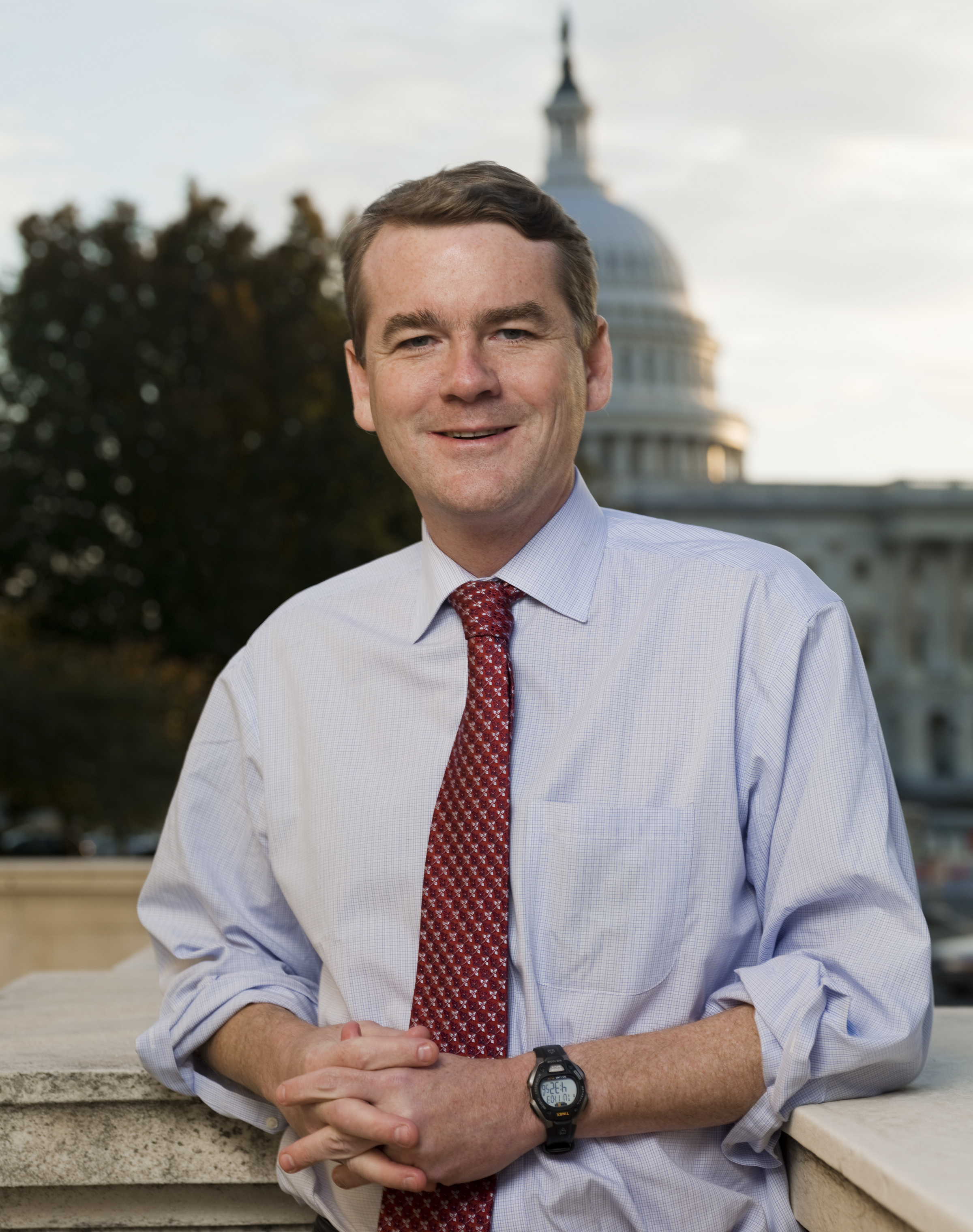 Official photo of Senator Michael Bennet (D-CO).